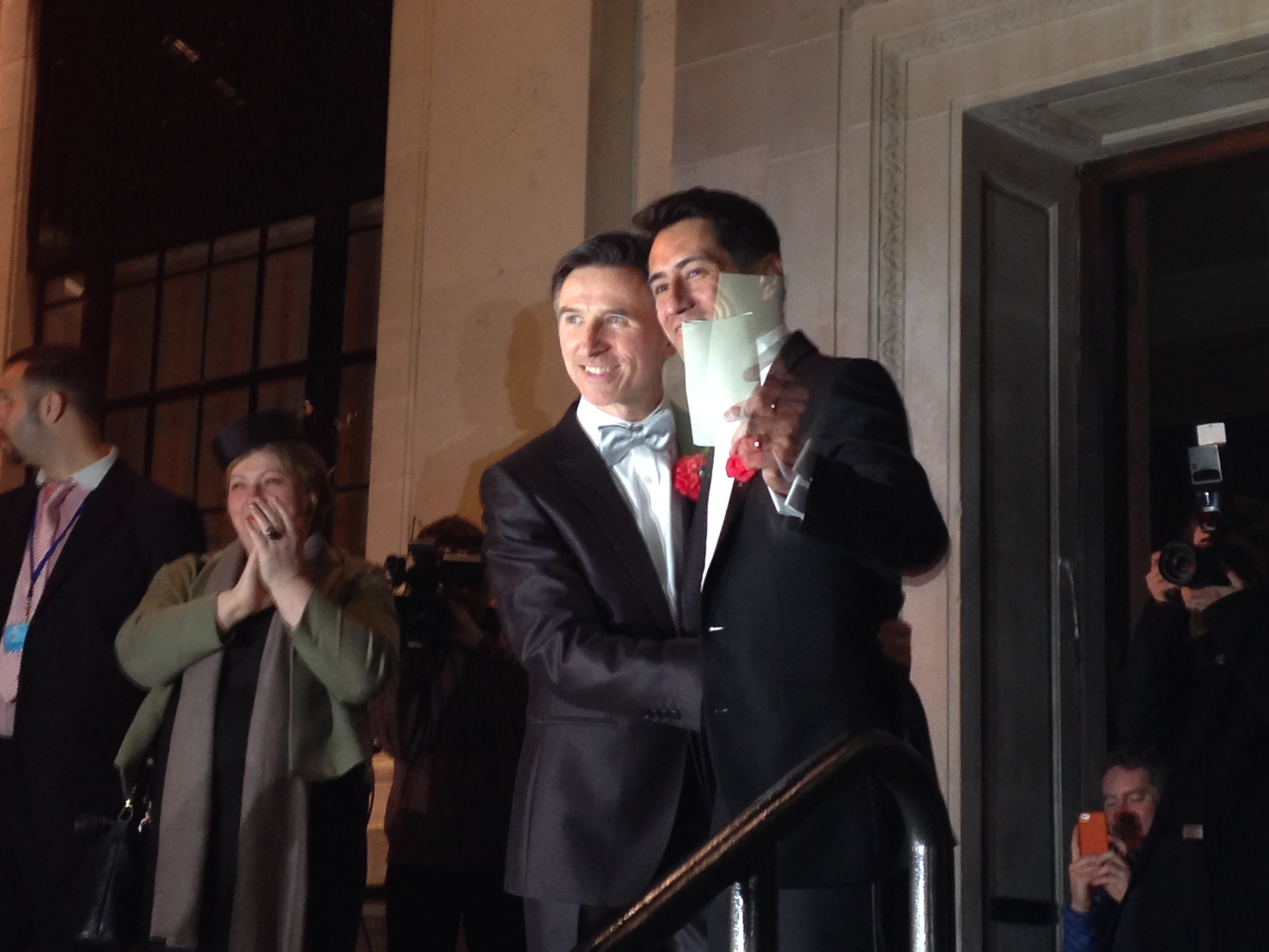 Peter and David, the first couple to get married in Islington using the same sex marriage law in England and Wales.